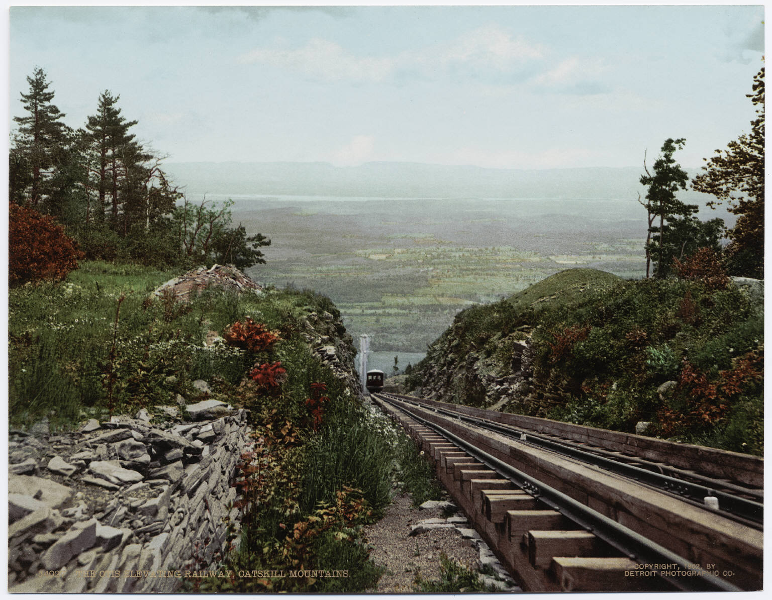 A photochrom postcard published by the Detroit Photographic Company.